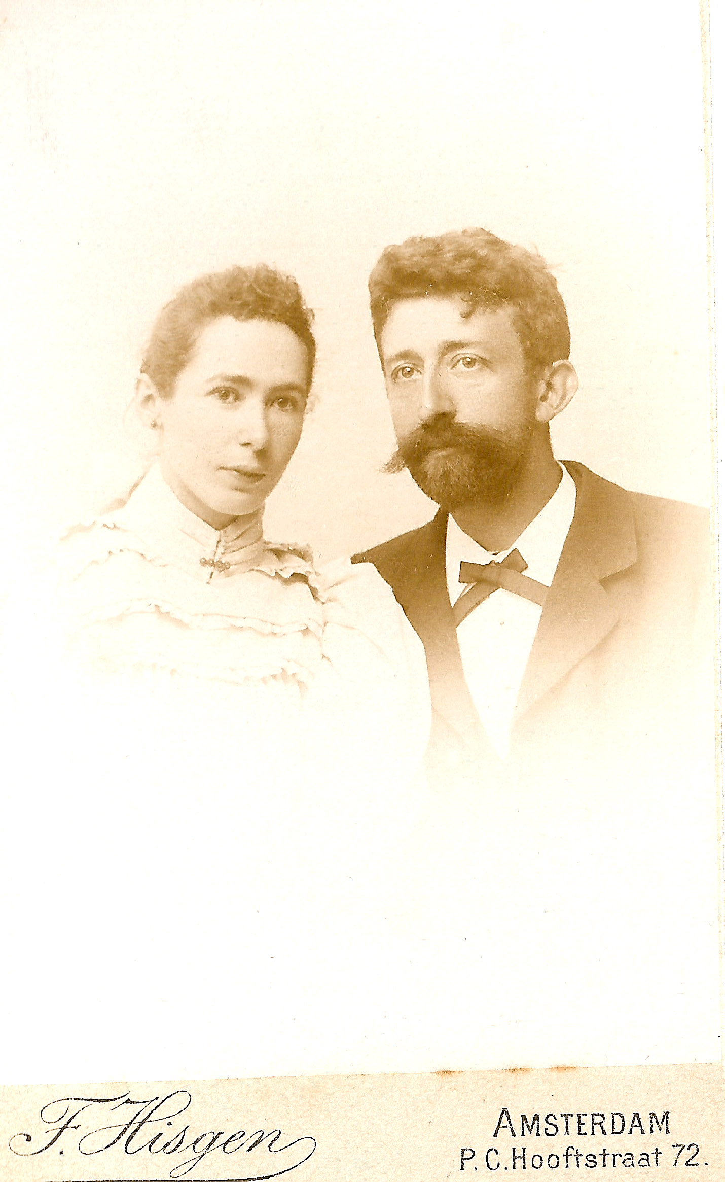 Herman Gerard Jansen - Architect and his wife Maria Elisabeth van den Hengel. [date unknown]